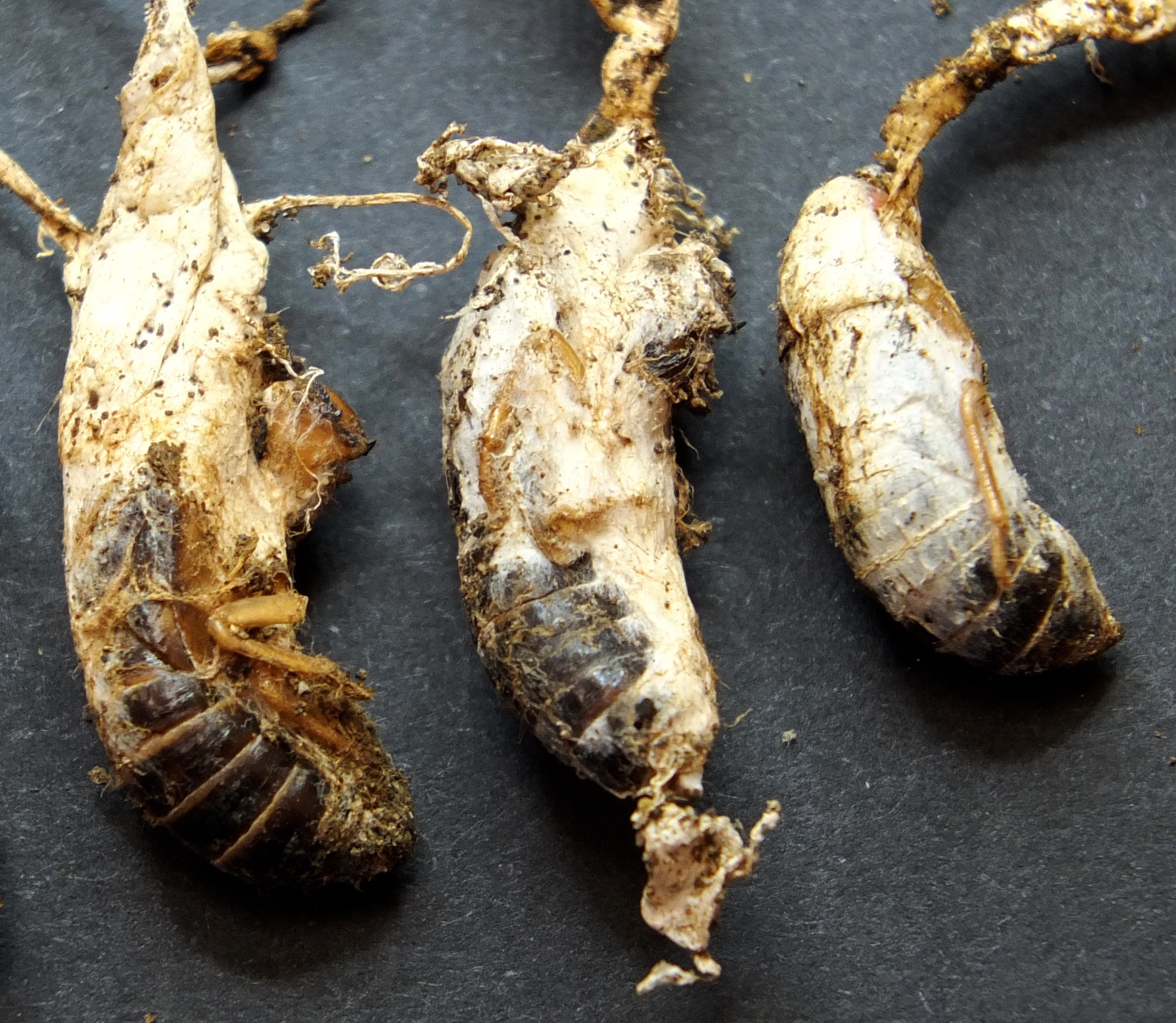 Close-up of cicada nymphs parasitised by the fungus Isaria sinclairii, collected at Bushy Park, New Zealand